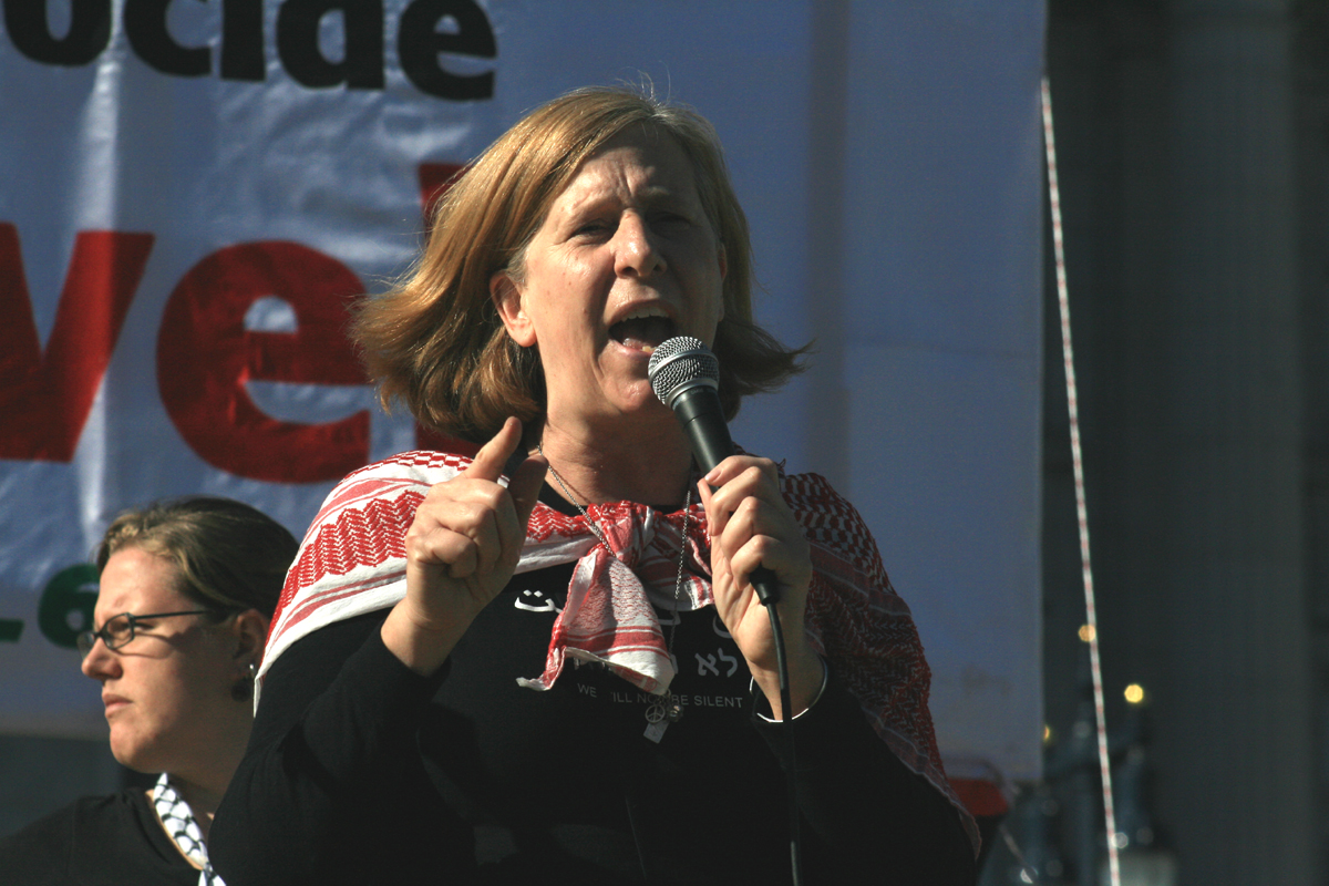 Cindy Sheehan speaks at free Palestine rally in San Francisco